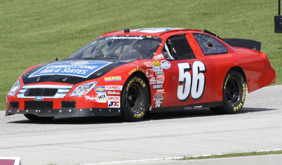 The NASCAR racecar for driver Joey Scarallo at the 2010 Bucyrus 200 at Road America.